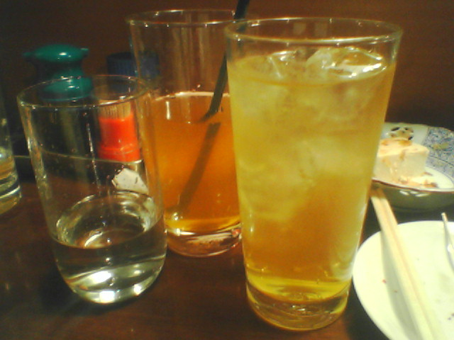 at A-un in Tsukishima, Tokyo. not regular cocktail in Okinawa though...jasmine tea and awamori (Okinawan liquor)